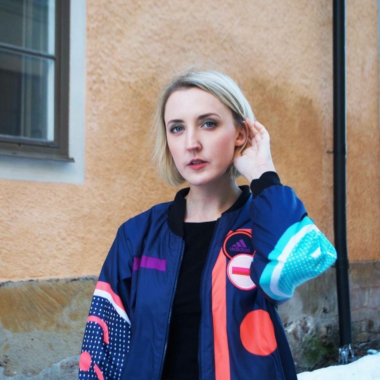 Swedish music artist Rut Sandbladh